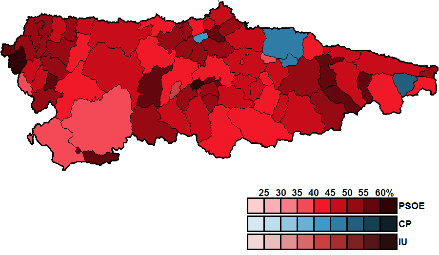 Most-voted party in Asturias municipalities, showing vote share obtained, in the Spanish general election, 1986.